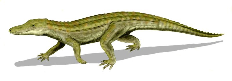 Uberabasuchus terrificus, a crocodylomorph from the Late Cretaceous of Brazil, pencil drawing